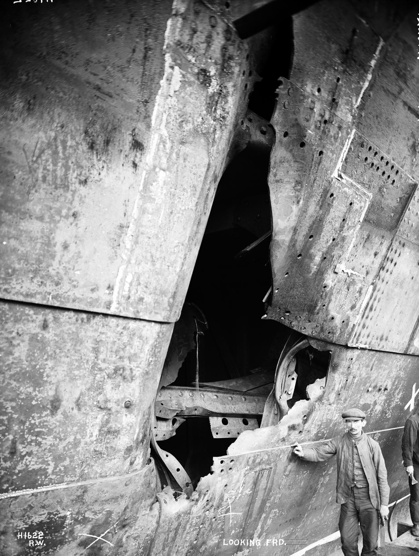 The hull of RMS Olympic following her collision with HMS Hawke in 1911